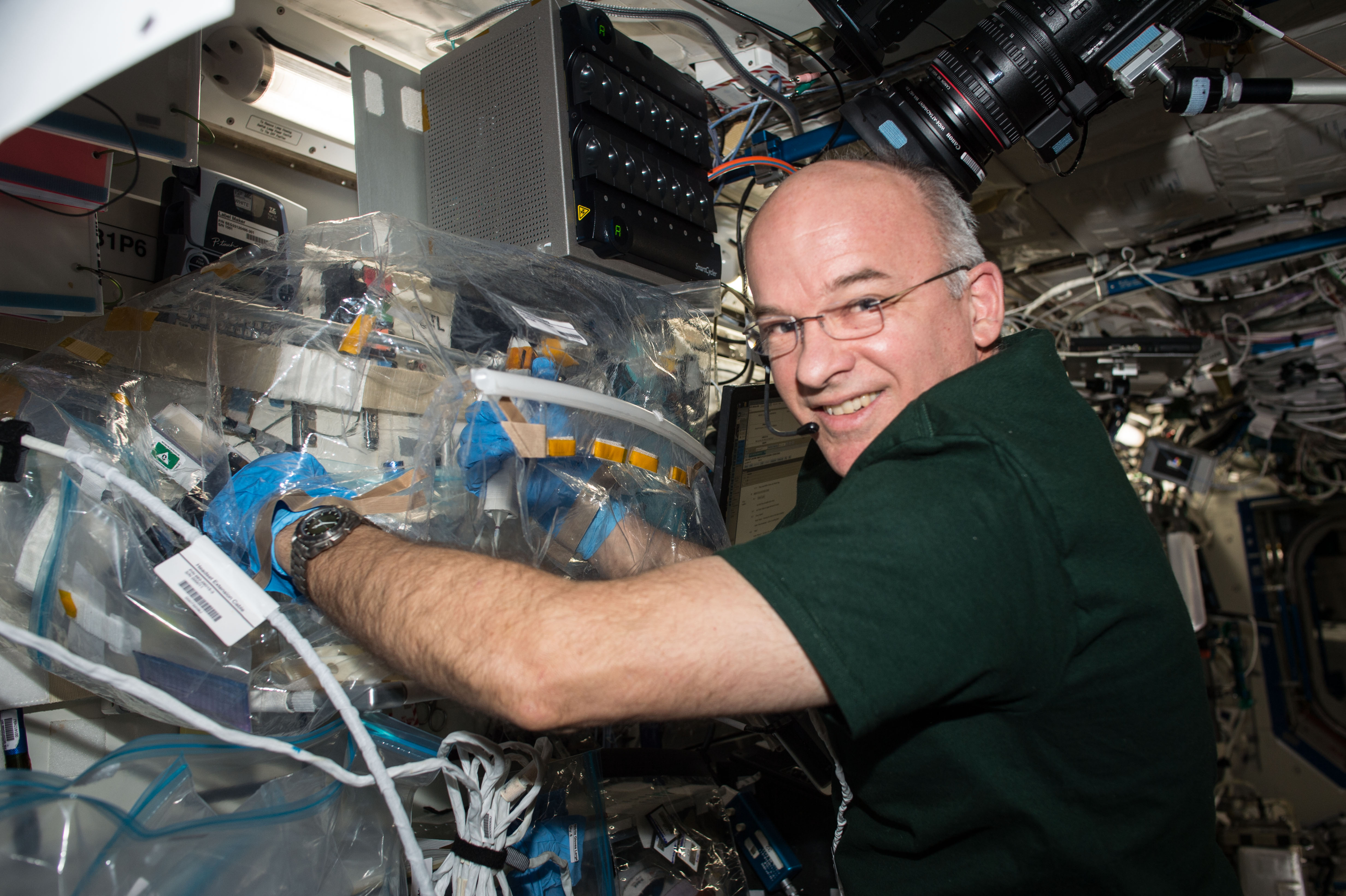 NASA astronaut and Expedition 47 Flight Engineer Jeff Williams works with the Wet Lab RNA SmartCycler on-board the International Space Station. Wetlab RNA SmartCycler is a research platform for conducting real-time quantitative gene expression analysis aboard the ISS. The system enables spaceflight genomic studies involving a wide variety of biospecimen types in the unique microgravity environment of space.